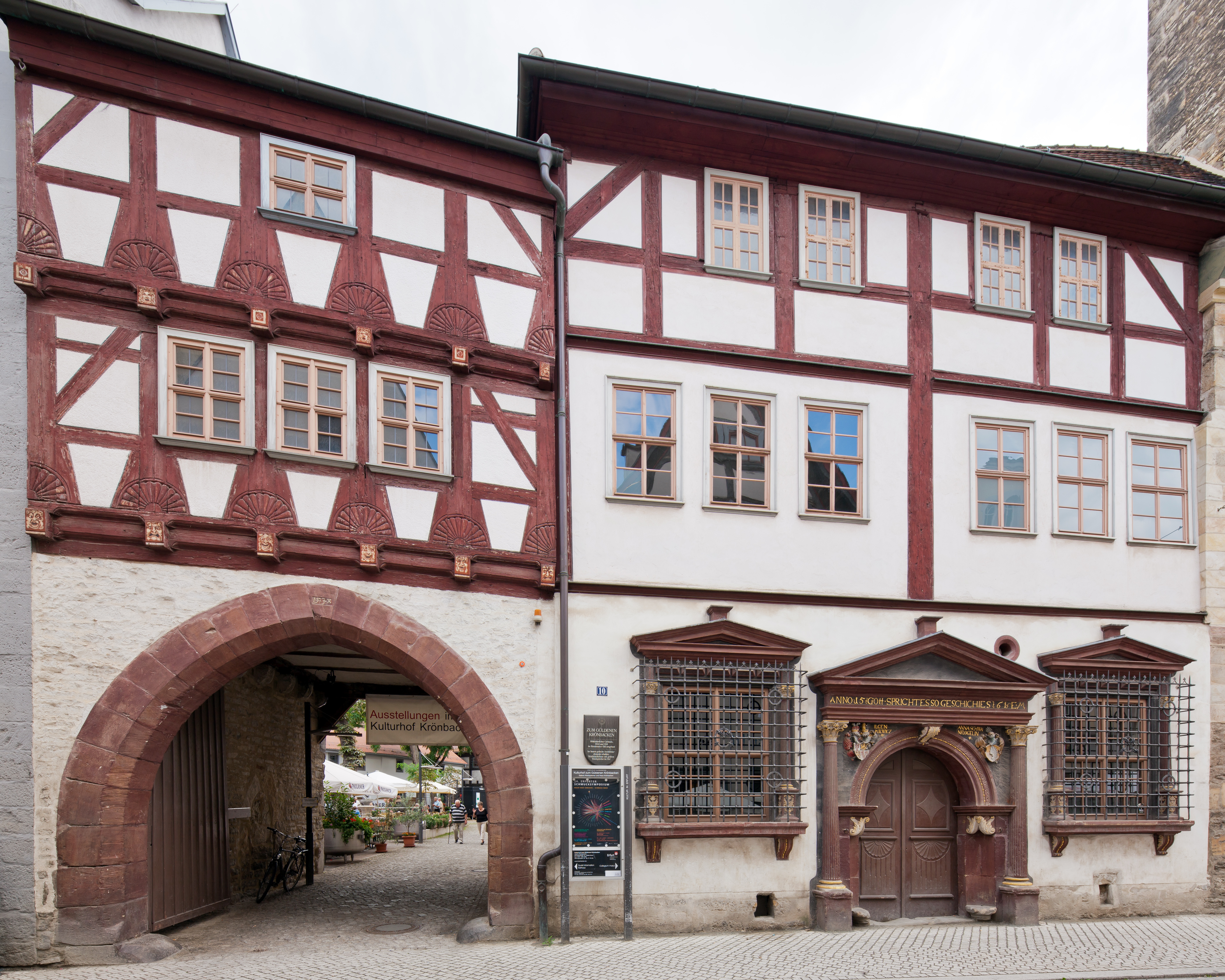 Erfurt: Haus zum Güldenen Krönbacken (House to the Güldener Krönbacken) as seen from the northeast